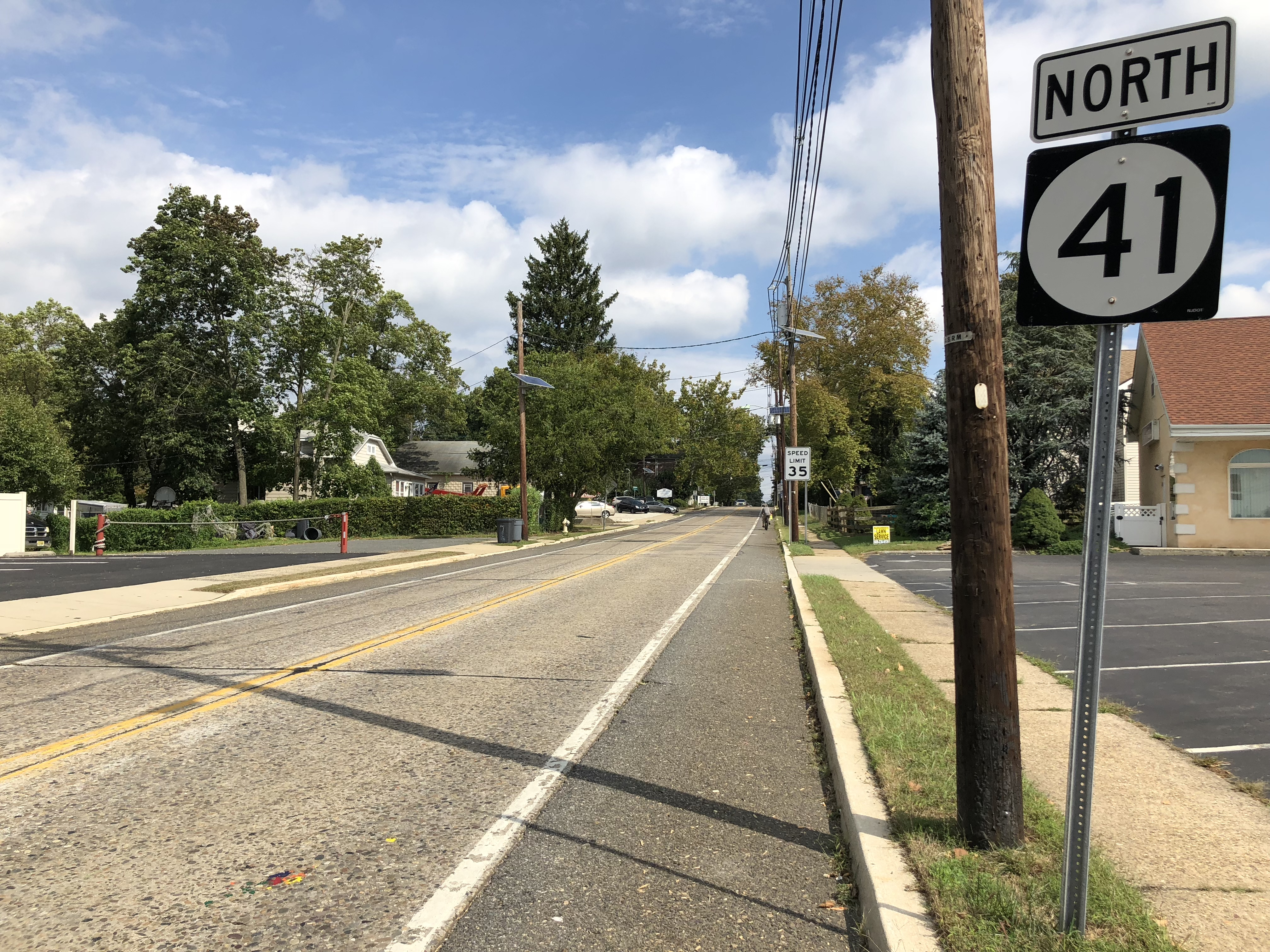 View north along New Jersey State Route 41 (Clements Bridge Road) just north of Camden County Route 544 (Evesham Road) in Runnemede, Camden County, New Jersey